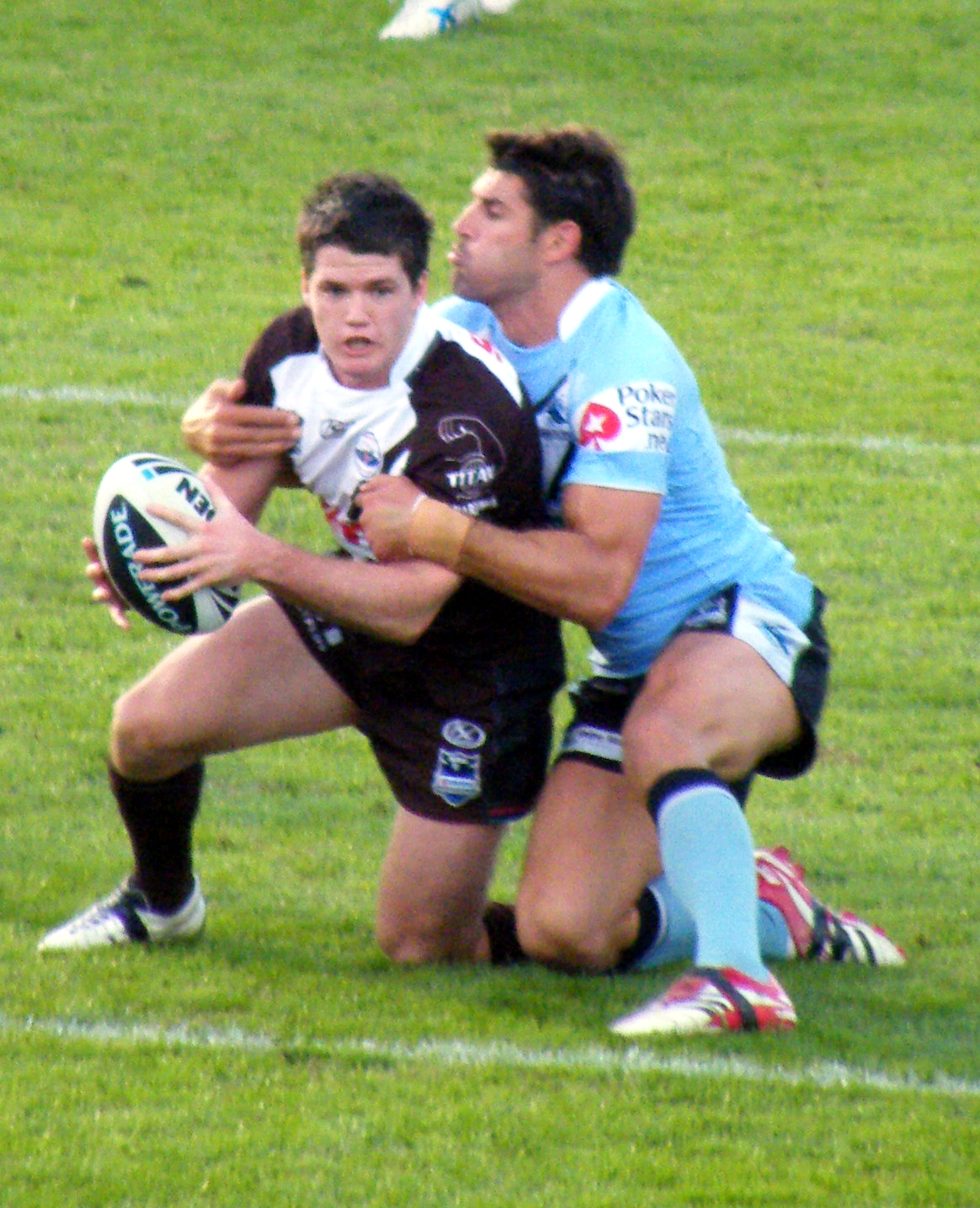 Lachlan Coote